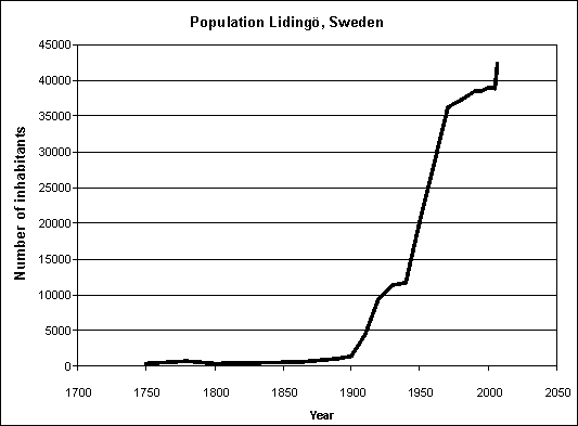 Diagram showing population in Lidingö, Sweden 1750-2007.